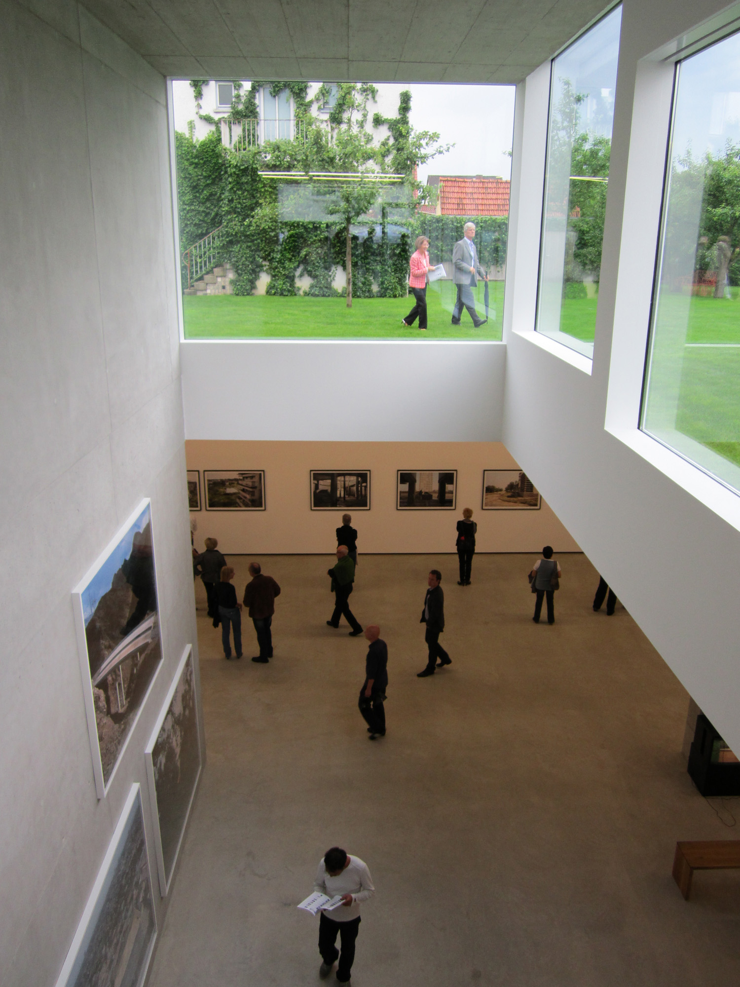 The Walther Collection, Neu-Ulm/Burlafingen, Germany Opening of Appropriated Landscapes, June 11, 2011